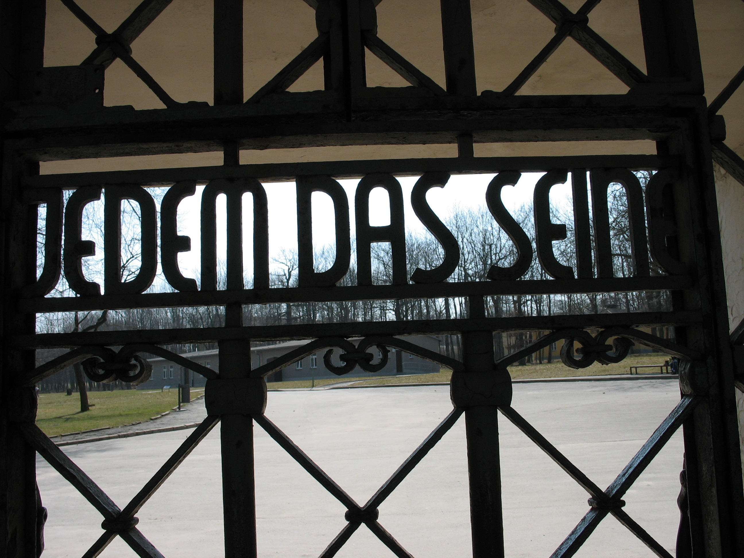 Camp Main Gate at KZ Buchenwald taken by myself. Buchenwald's main gate, with the slogan "Jedem das Seine" (literally, "to each his own", but figuratively "everyone gets what he deserves") suggested wikipedia caption Buchenwald's main gate, with the slogan Jedem das Seine (literally, "to each his own", but figuratively "everyone gets what he deserves")